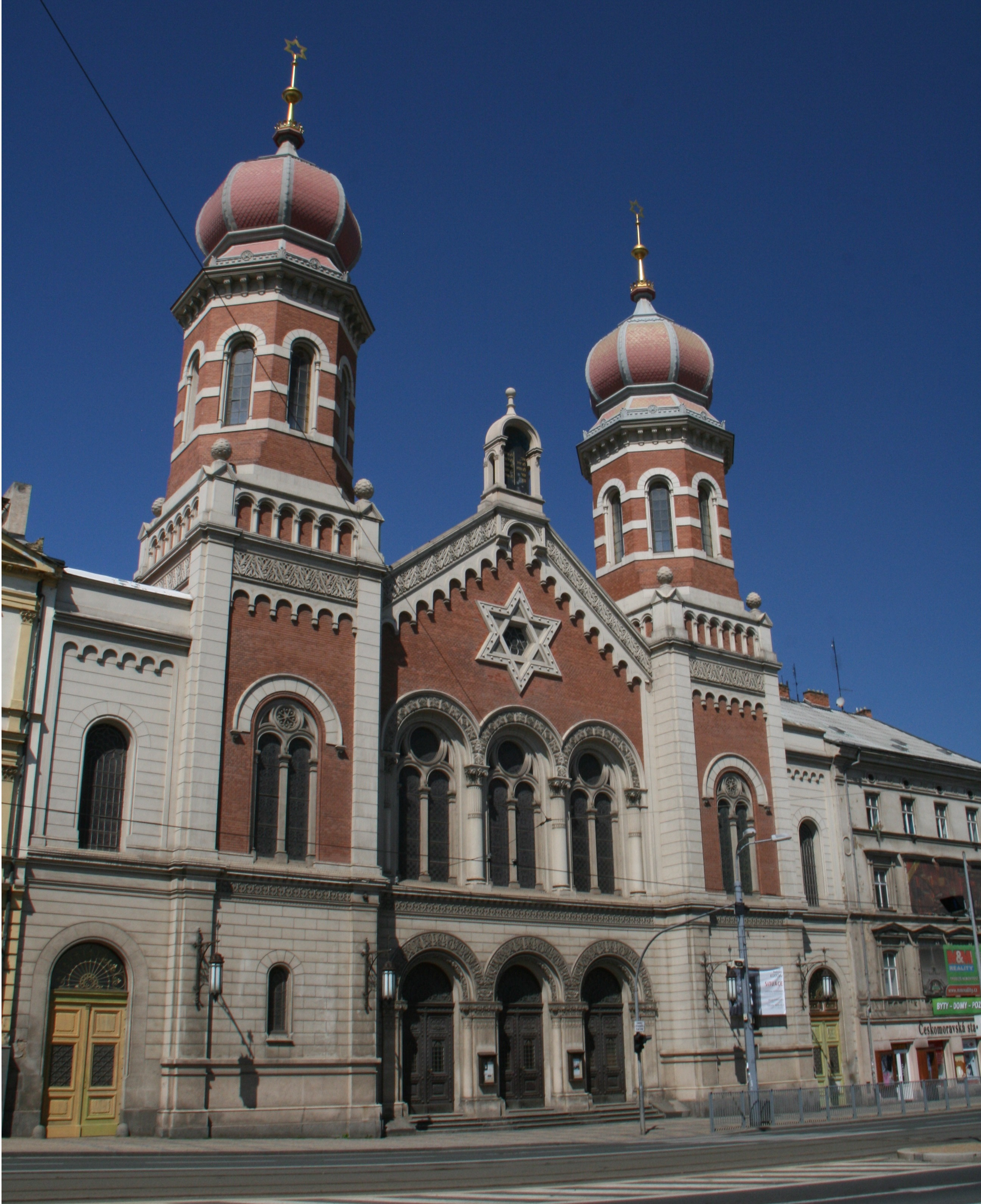 Synagogues in Plzeň - Great Synagogue in Pilsen